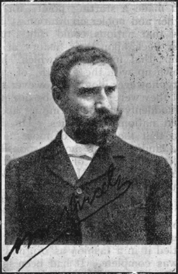 Autographed photo of Max Hirsch, published with his obituary in The Standard (Sydney Single Tax League), March 15, 1909, p.5, with the caption "Photo by Brittlebank & Arundel, Albury, N.S.W."